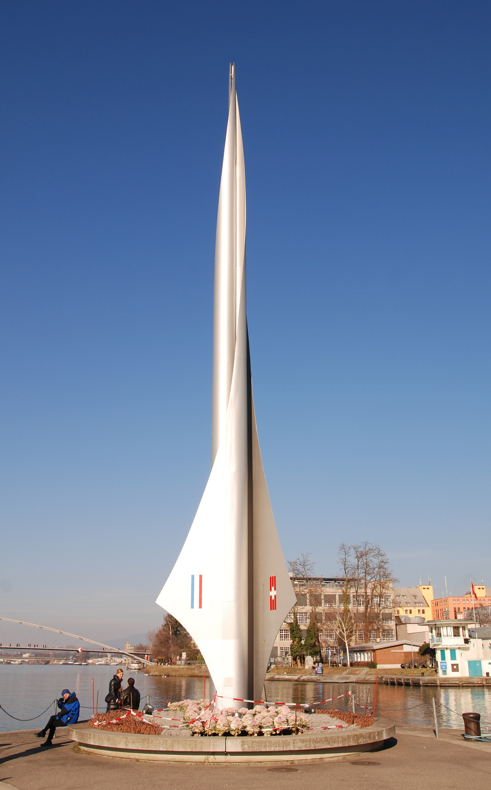 Tripoint Germany, France, Switzerland in Basel, in the background the Dreiländerbrücke. Pylon by Wilhelm Münger, 1957, placed on swiss territory; the point where the three borders join is in the middle of the river Rhine.